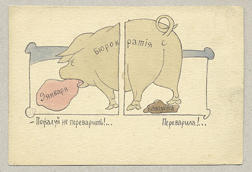 Postcard with cartoon of Valery Carrick "Ne perevarit'"